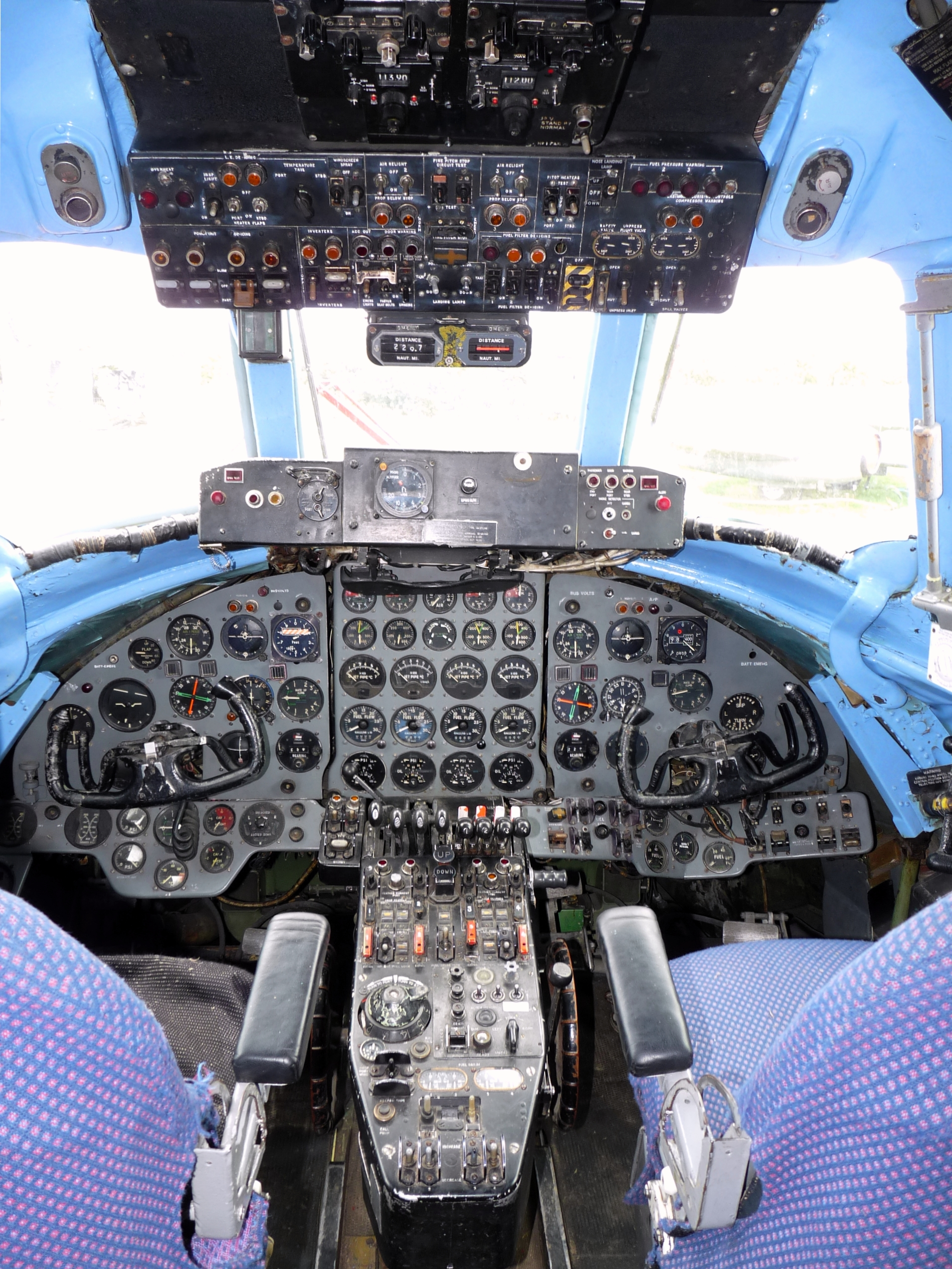 Cockpit of Vickers Viscount 806 G-AOYN/G-OPAS c-n 263, exhibited in Bournemouth Aviation Museum